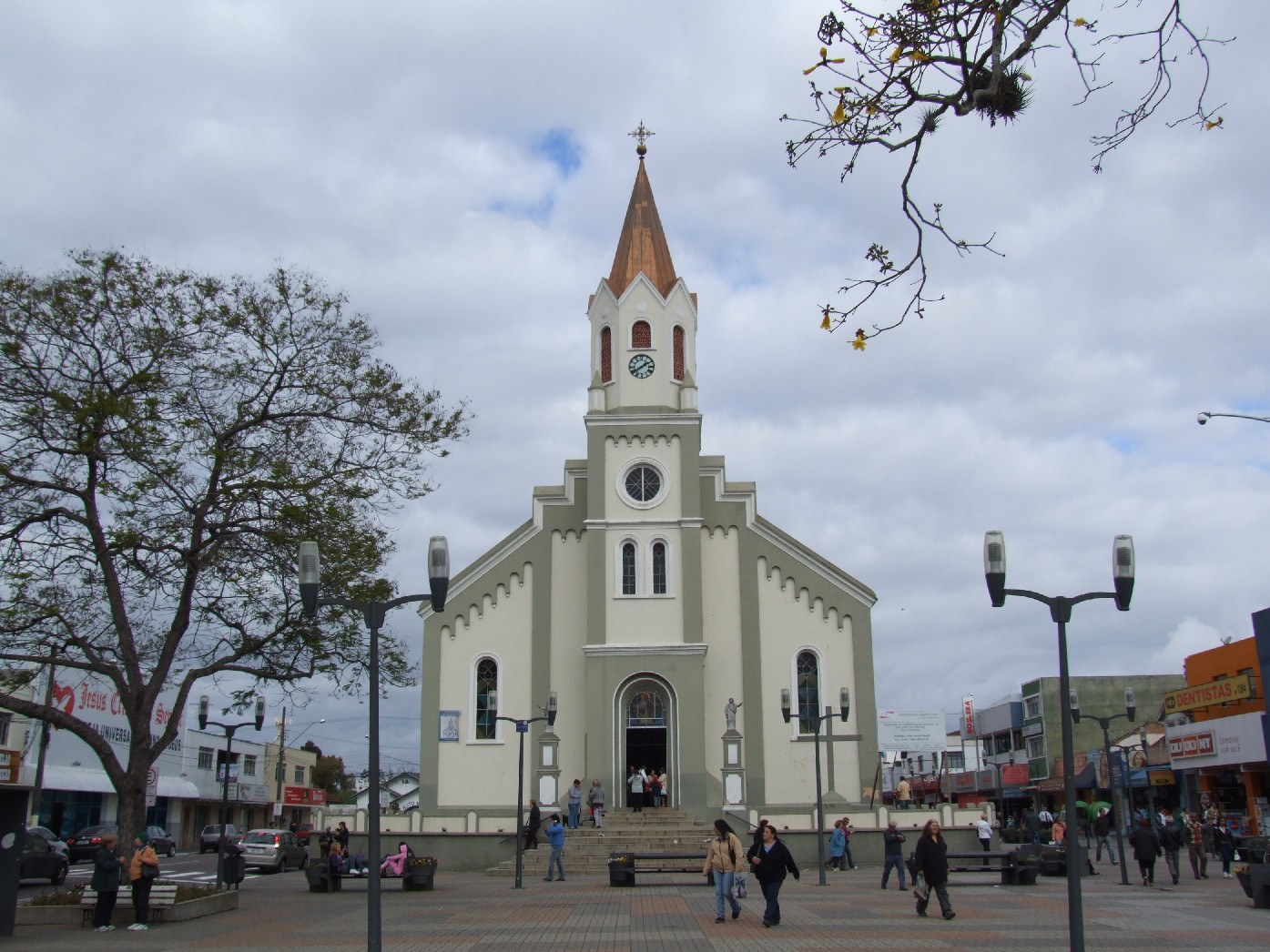 Saint Joseph Church, located at the January 8 Square, in the municipality of São José dos Pinhais, state of Paraná, Brasil